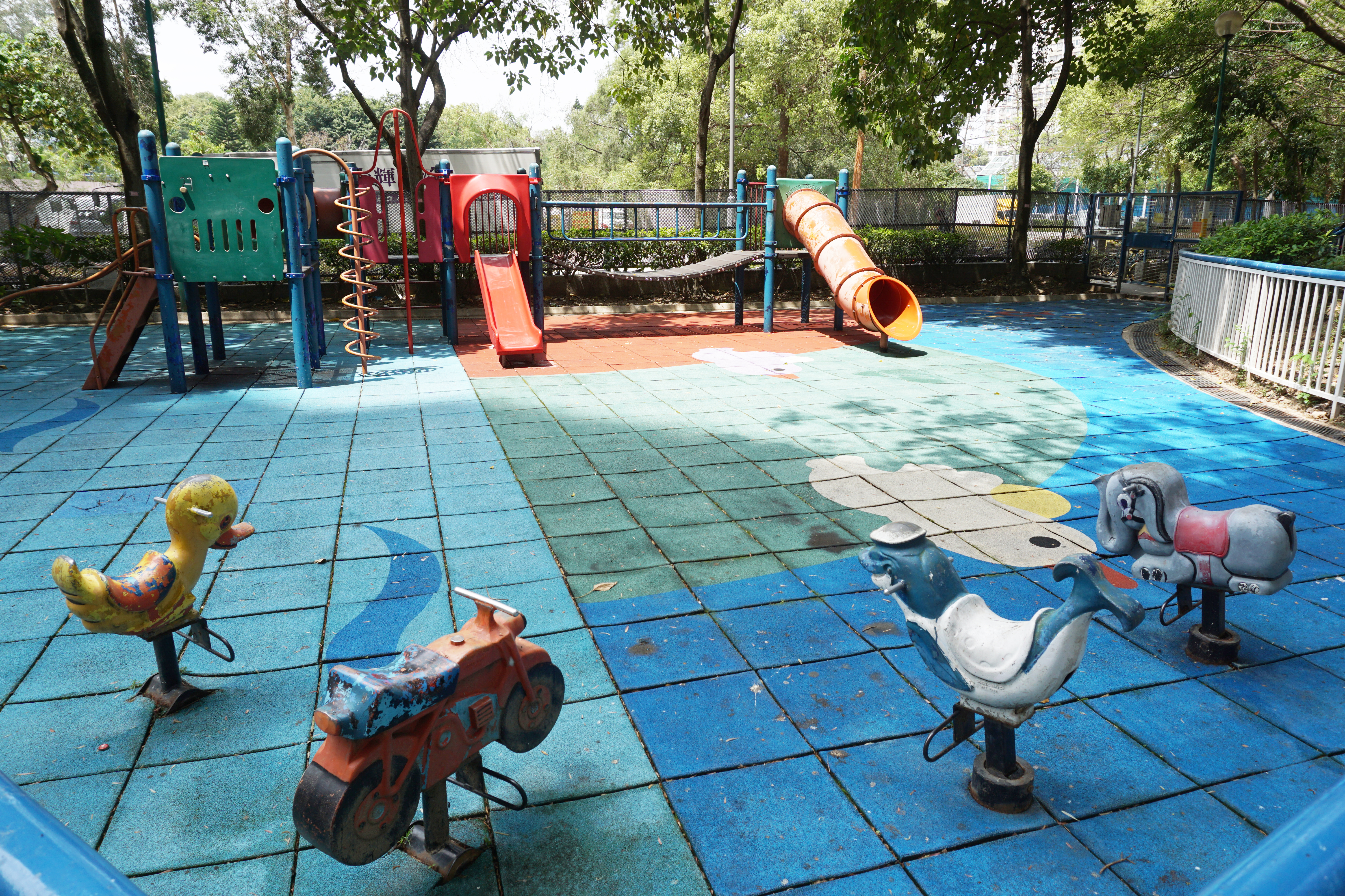 Tai Ping Estate in Sheung Shui, Hong Kong.